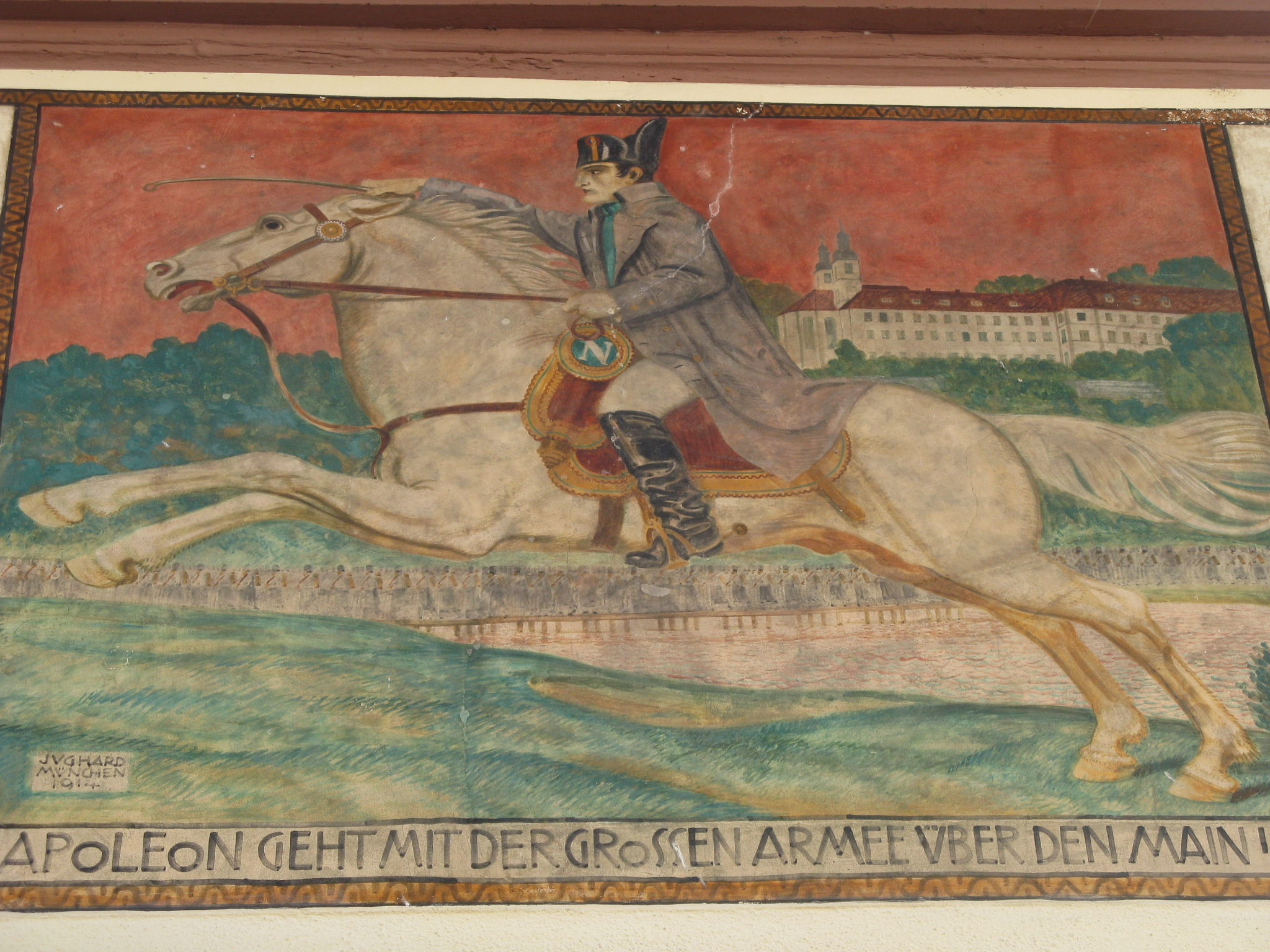 Lengfurt/Main (Unterfranken/Germany): Fresco on the building where Napoleon passed the night when crossing the Main in 1812